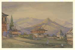 Painting of Raja's house at Kumharsain